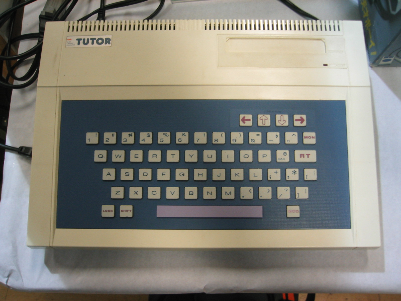 Vintage computer at VCFE meeting in Germany